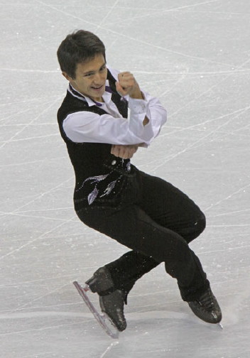 Patrick Chan skates.